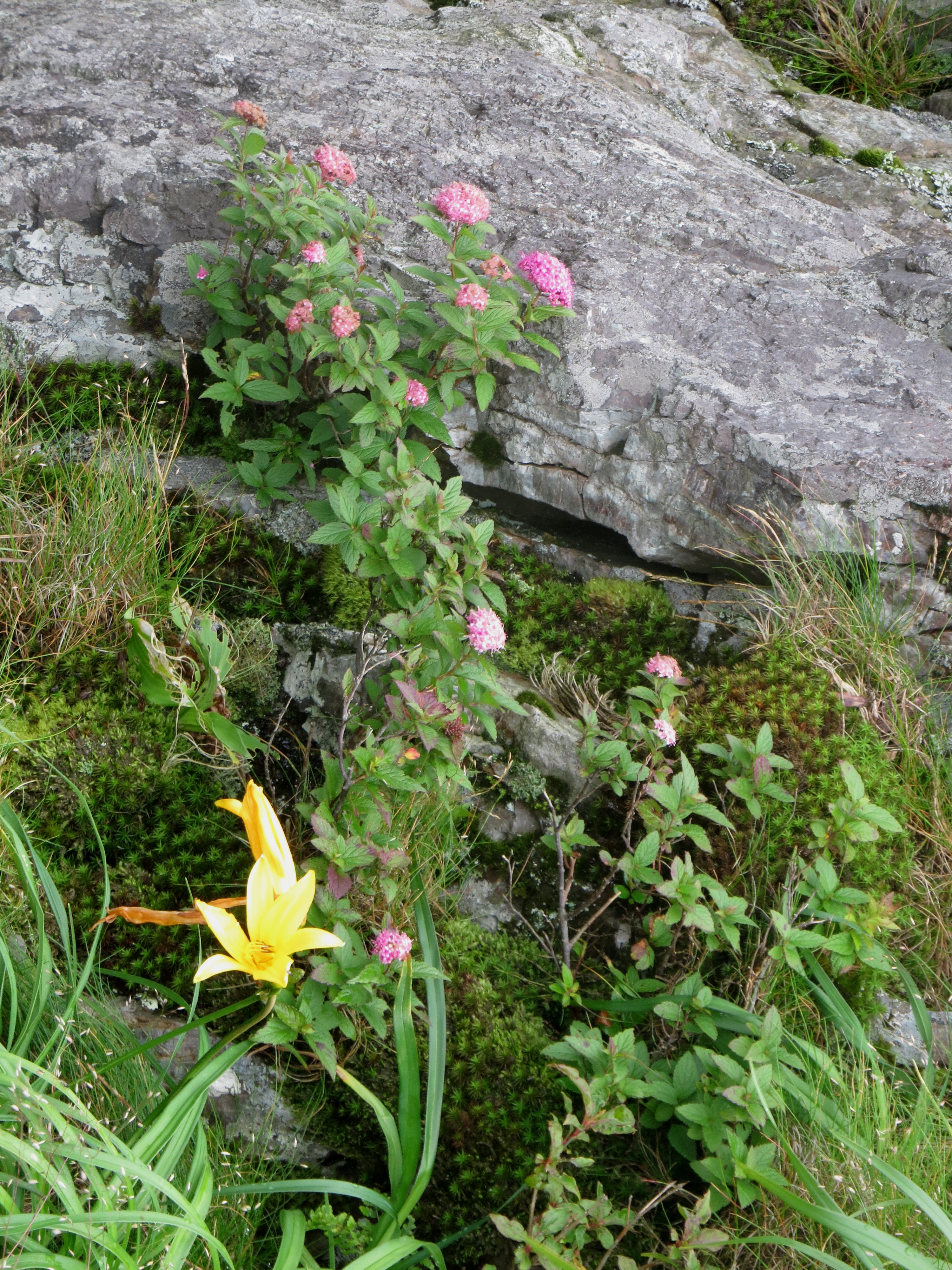 Spiraea japonica and Hemerocallis dumortieri var. esculenta in Mount Yashagaike, Ibigawa, Gifu Prefecture, Japan.